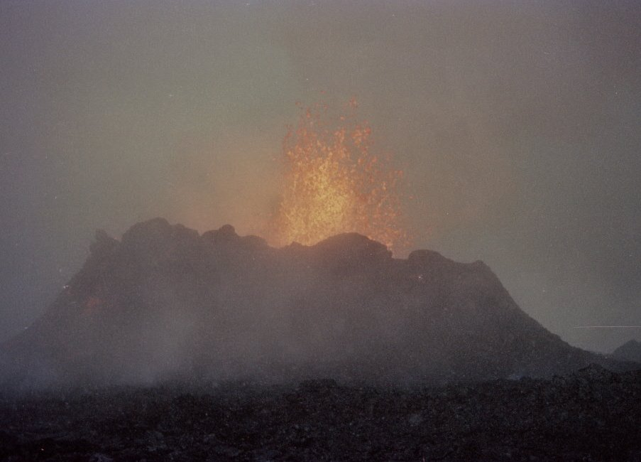 A small volcano at Krafla, north Iceland, in Sept 1984. There was a snow storm going on at the time, so I was very cold on one side, and very warm on the other. I was entirely too close to this, perhaps a hundred feet away at the most.